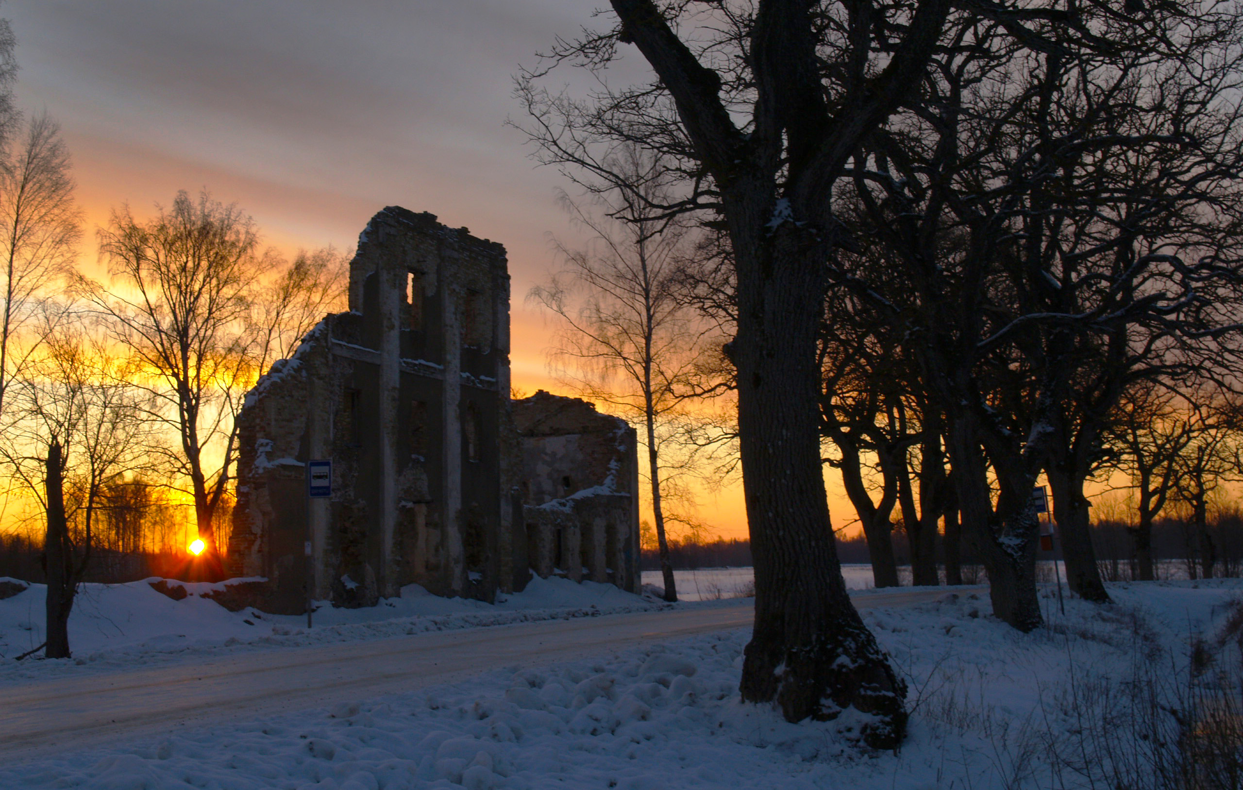 Ermistu village Tõstamaa municipality